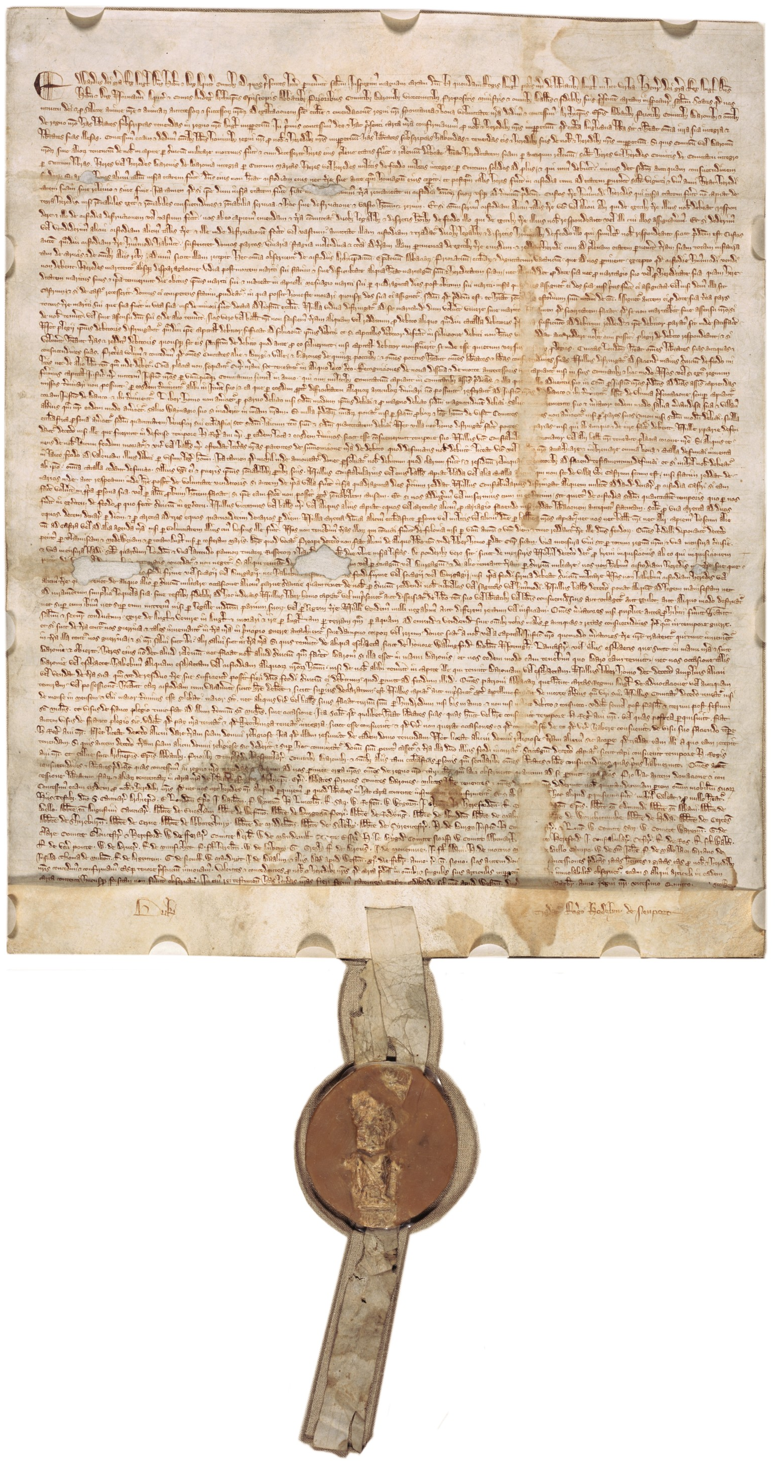 The 1297 version of Magna Carta, one of four originals of the document. This copy was formerly owned by the Brudenell family and the Earls of Cardigan, and later the Perot Foundation. David Mark Rubenstein, co-founder and Managing Director of The Carlyle Group, acquired the document in 2007 and loaned it to the National Archives and Records Administration. It is now on public display in the West Rotunda Gallery of the National Archives Building in Washington, D.C., USA.